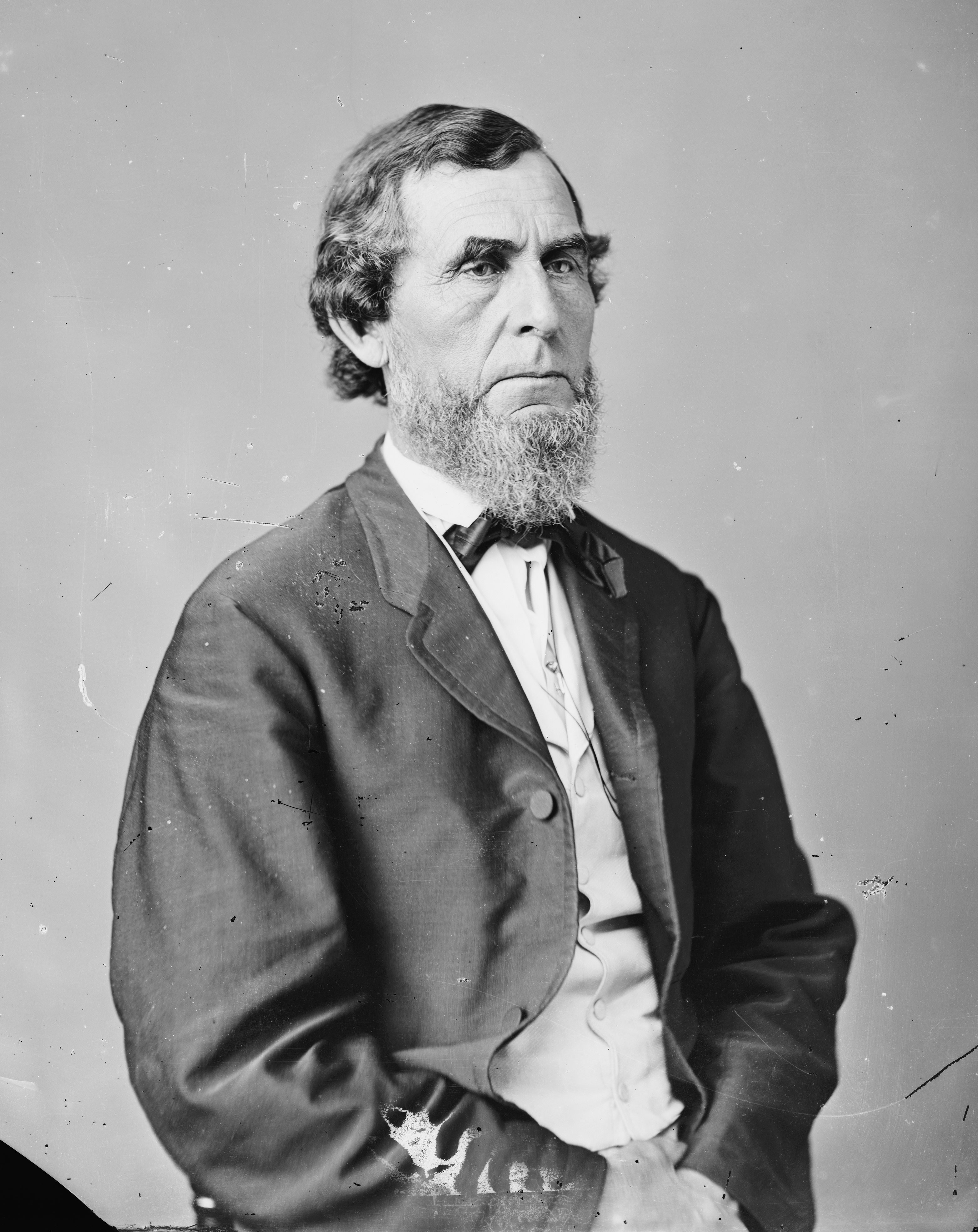 Columbus Delano, Hon. of Ohio. Delegate to Republican National Convention at Chicago in 1860. Second the nomination of Abraham Lincoln as a candidate for Pres. U.S. State Commissary General of Ohio in 1861.